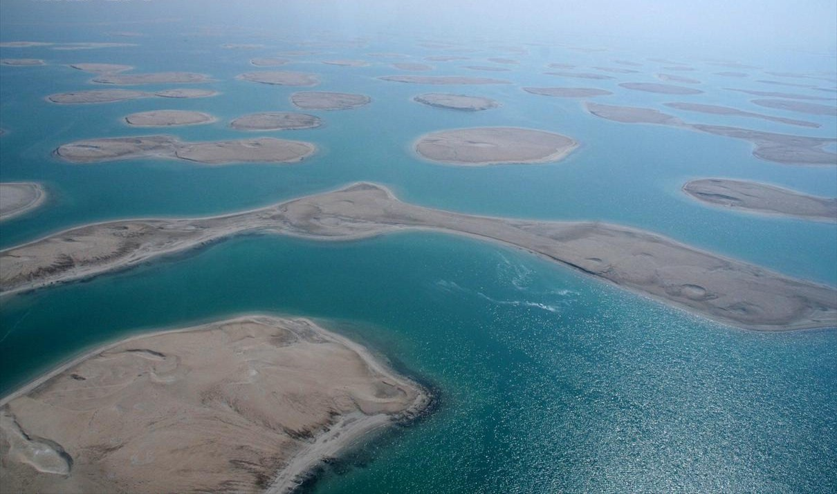 This is a photo showing The World, located in the Arabian Gulf off the coast of Dubai, United Arab Emirates, on 18 October 2007. This photo was taken from a helicopter ride courtesy of Nakheel.